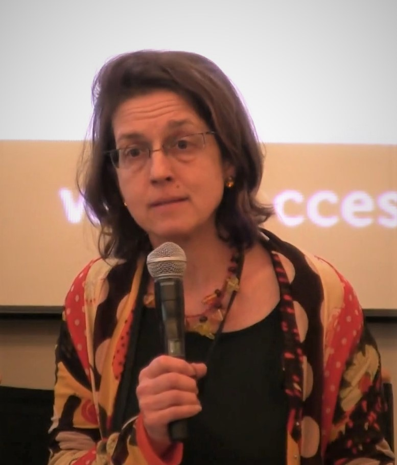 Using Technology to Counter Dangerous Speech - When Feed the Trolls Isn't Enough Susan Benesch, Director, Dangerous Speech Project (Moderator) Participants: Sally Smith, Managing Director, The Nexus Fund Angela Okune, Research Lead, iHub Research, Derek Ruths, Director, Networks Dynamics Lab at McGill University Description: Preceding mass atrocities a red flag is raised to the world in the form of "Dangerous Speech" --a virulent subset of hate speech that which can catalyze violence by one group of people against another group. Ironically, this language, which proliferates on social media platforms and via SMS, is also an early warning sign that creates a potential opportunity -- an entry point -- to prevent or forestall atrocities through "counter speech" and other techniques that do not suppress free speech. This workshop presented some ideas, and facilitated conversation around, early research on experiments designed to test counter speech and other methods to diminish expressions of hatred and dehumanization and other features of Dangerous Speech online - for when "don't feed the trolls" isn't enough.